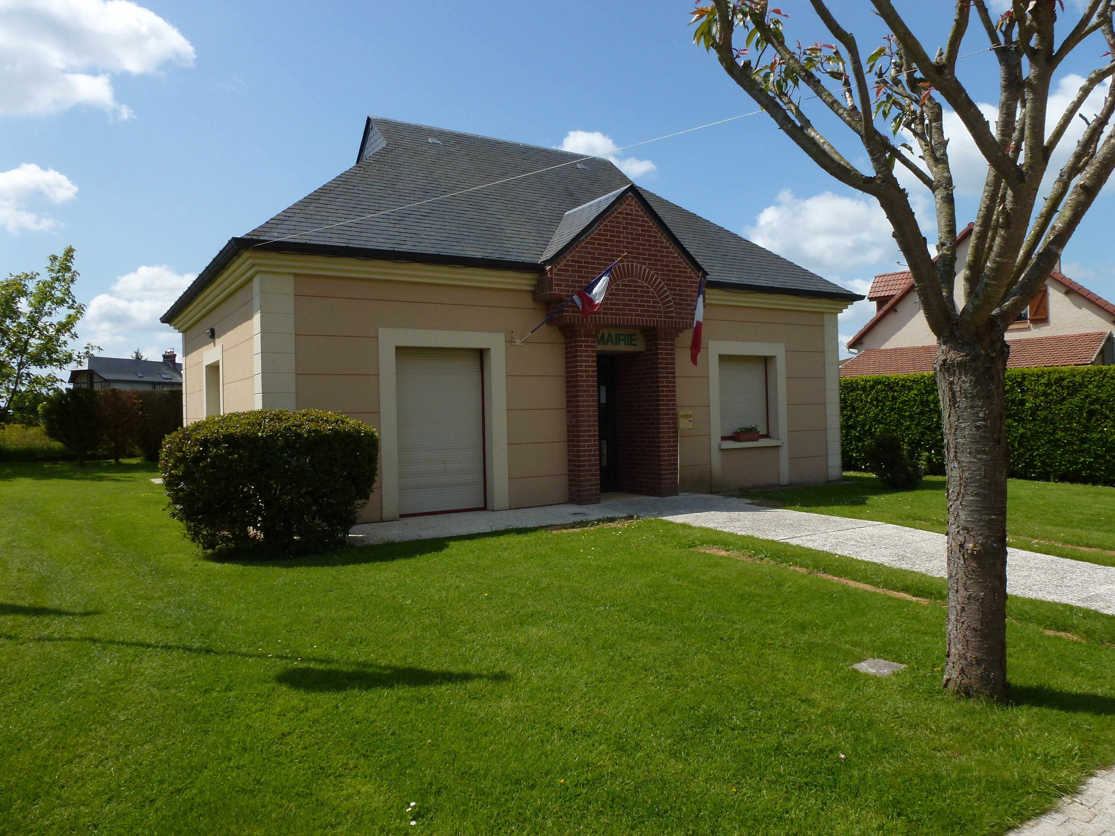 Saint-Meslin-du-Bosc (Eure, Fr) town hall